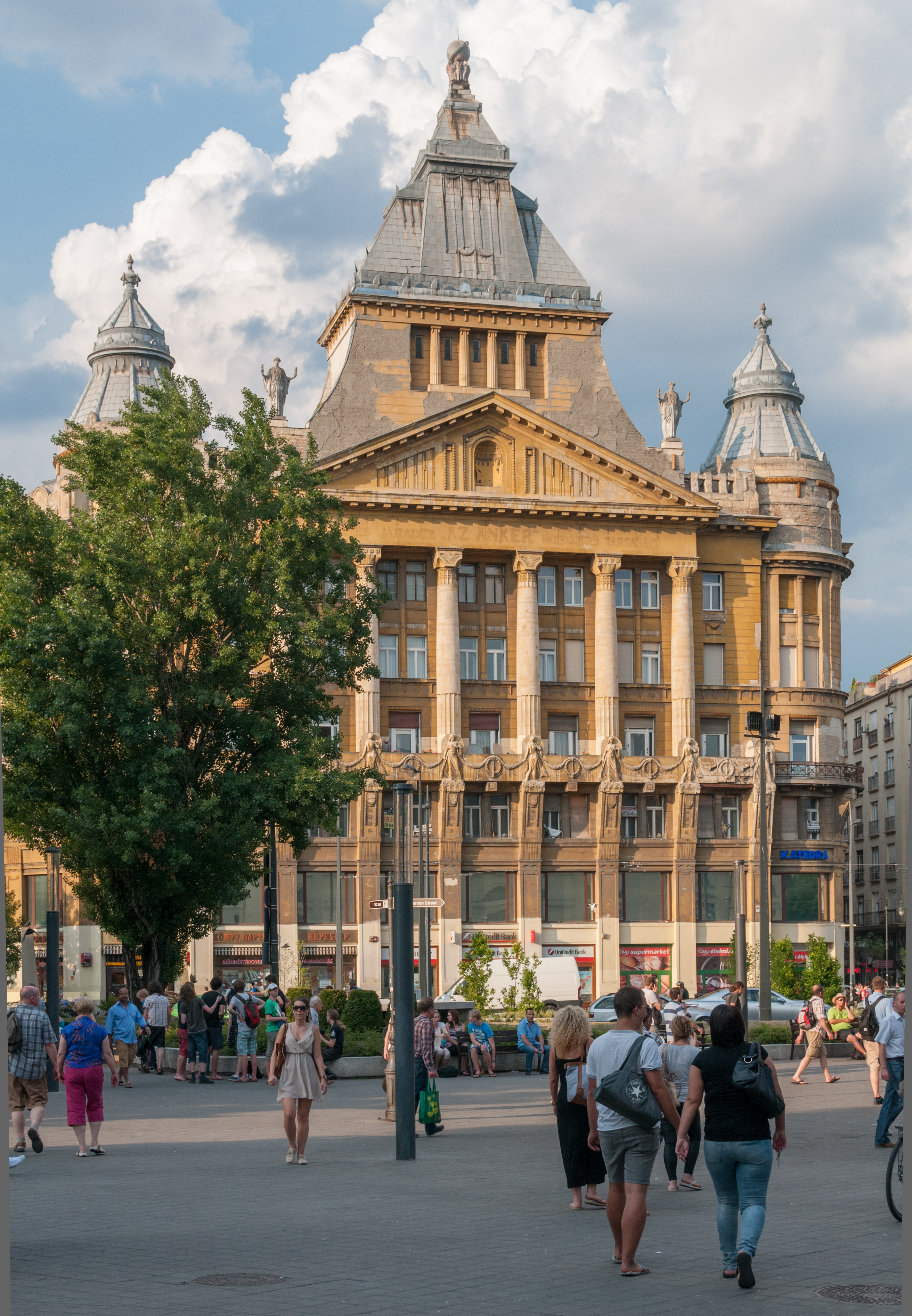 Budapest city